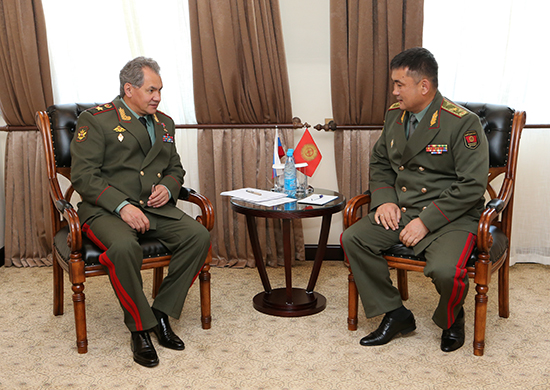 Russian Defense Minister Sergey Shoigu with Kyrgyz Defense Minister Taalaibek Omuraliev.